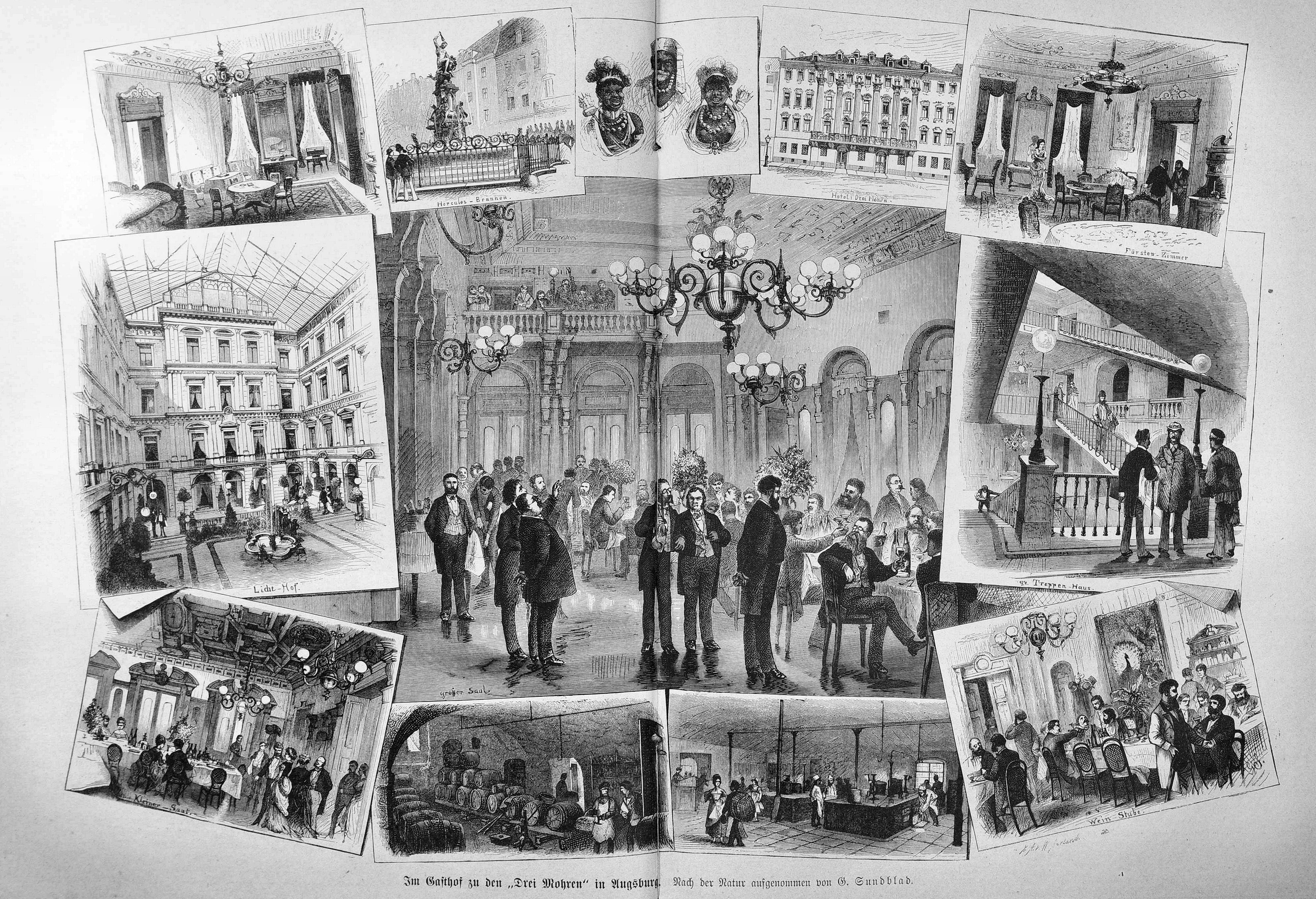 caption: "Im Gasthof zu den „Drei Mohren“ in Augsburg. Nach der Natur aufgenommen von G. Sundblad."